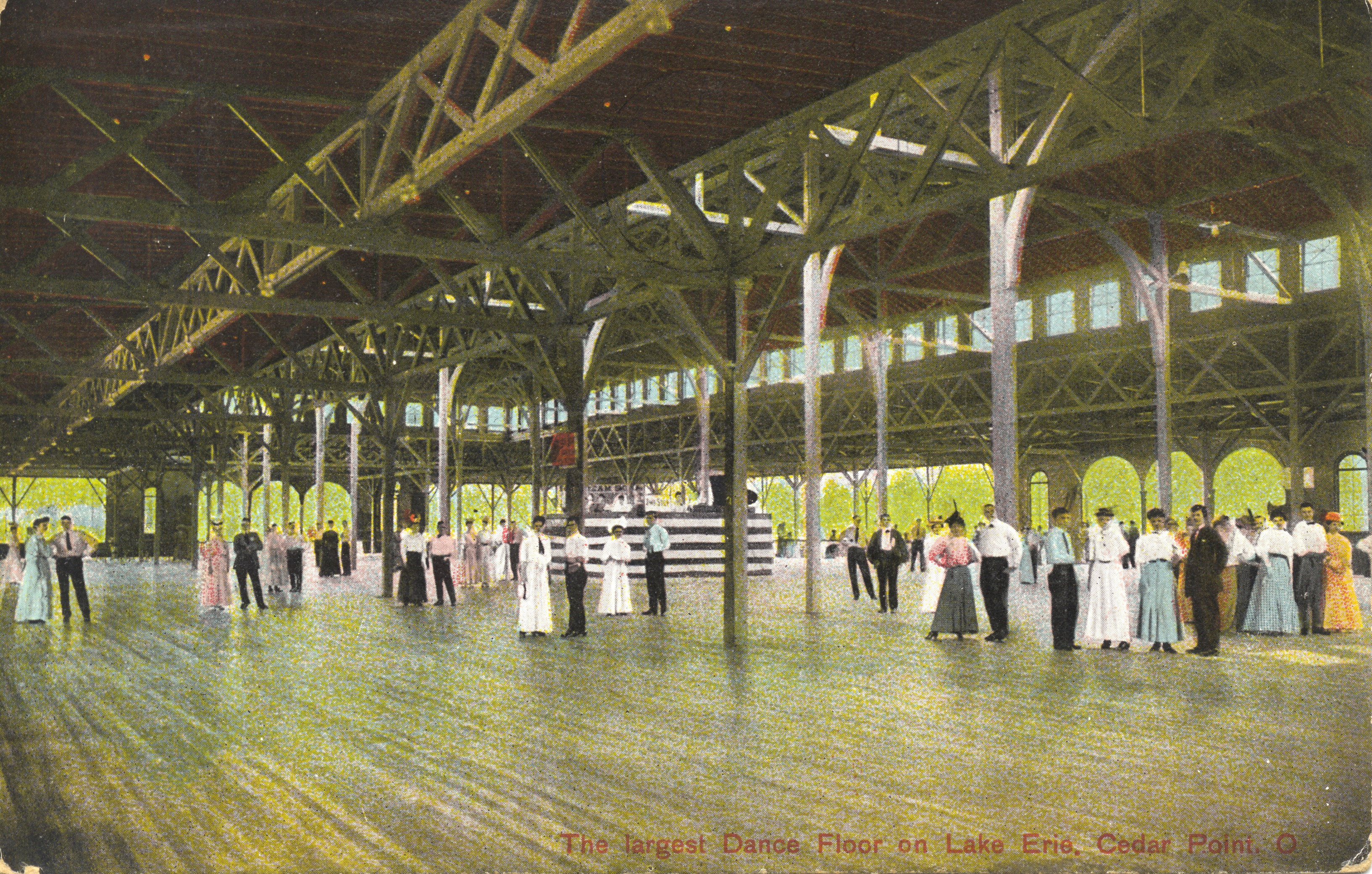 Persistent URL: Subject (TGM): Ballrooms; Dance halls; Recreation; Ohio--Cedar Point